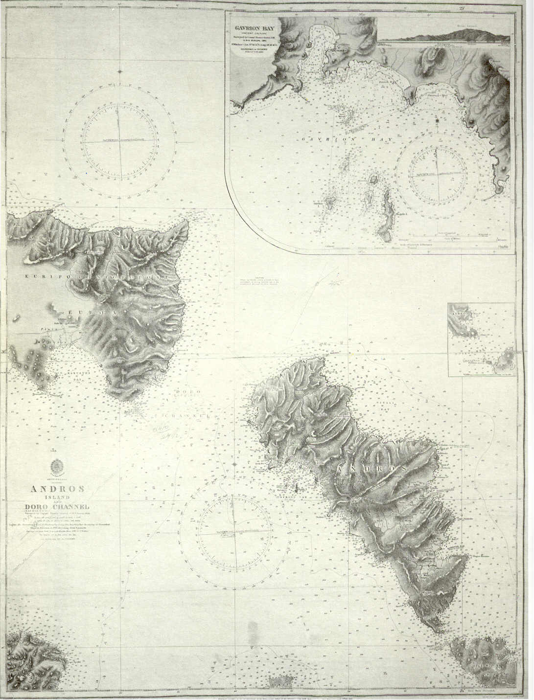 Admiralty chart of Andros Island and Cape Doro strait (today Kafireus Strait), Greece. Includes a large scale chart of Gavrion Bay (1844).